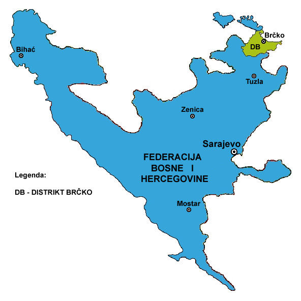 Map with the biggest cities of the Federation of Bosnia and Herzegovina